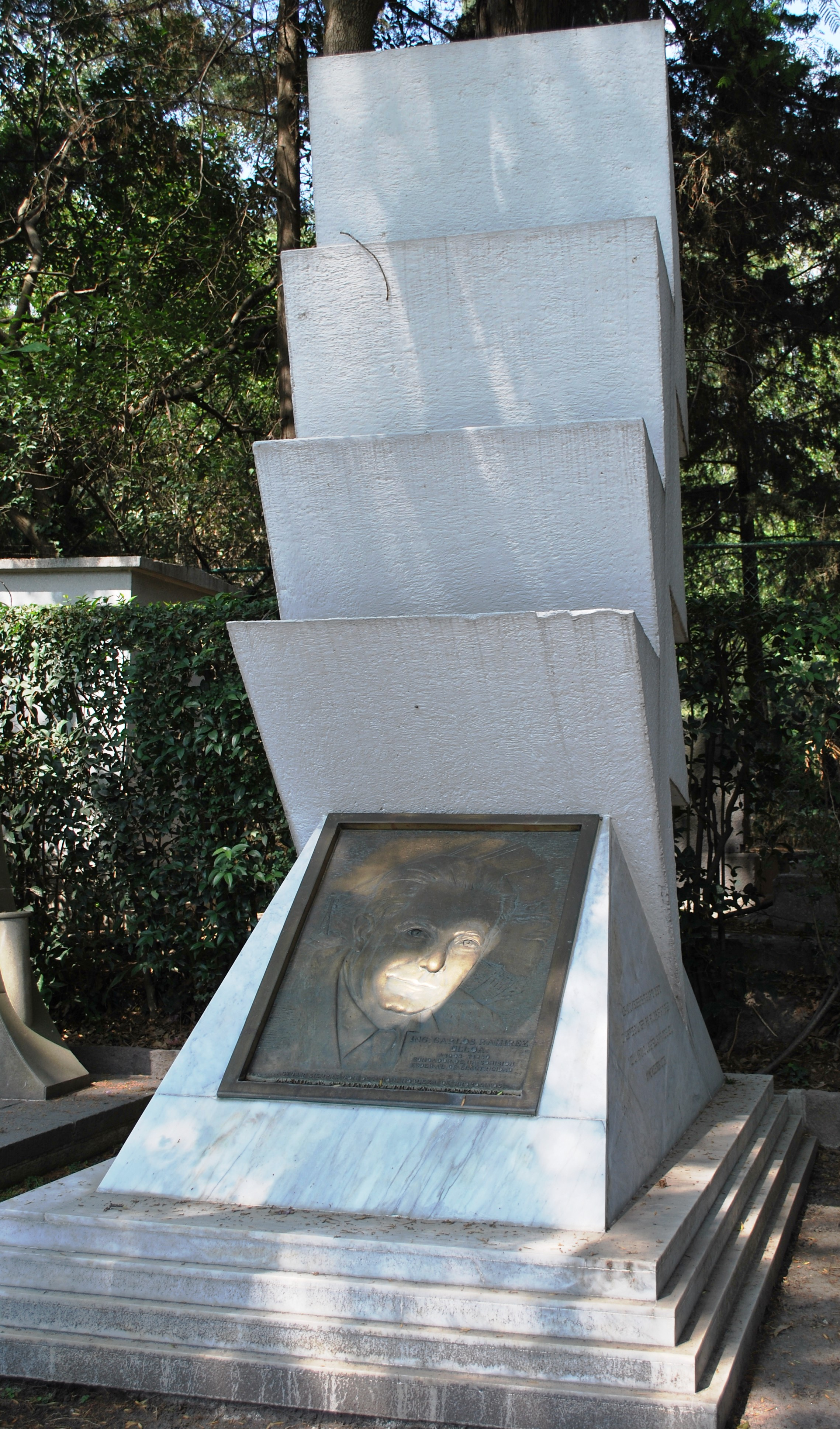 Tomb of Carlos Ramirez Olloa in the Panteon Civil de Dolores cemetery in Mexico City